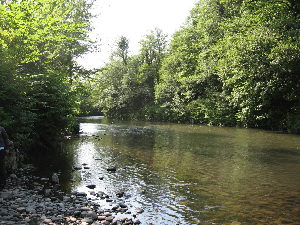 Ebbw River at Tredegar Park The Ebbw River, looking west as it flows past Tredegar Park. Keywords: trees shore